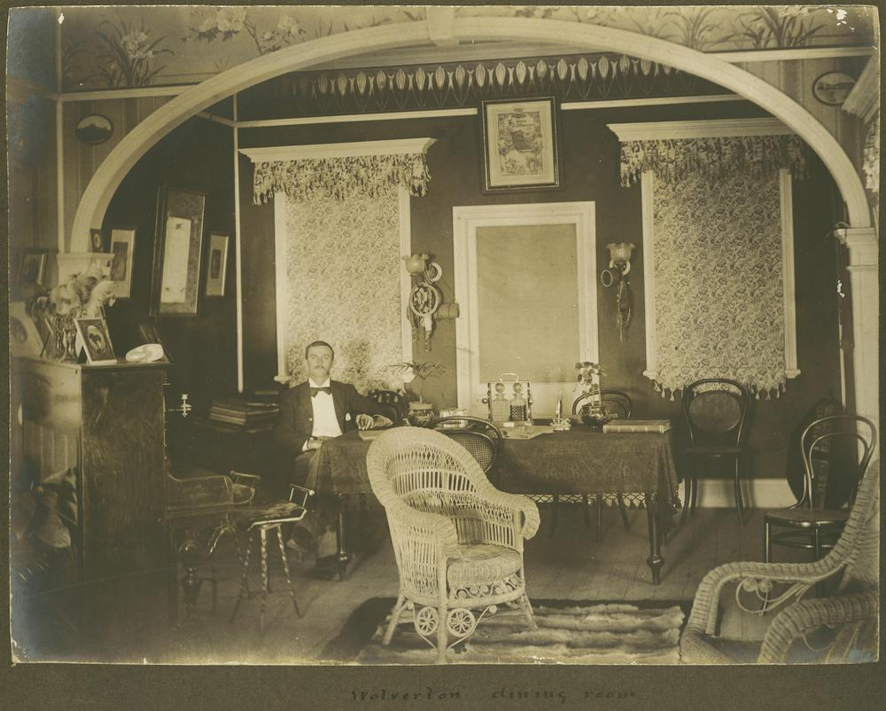 Dining room interior Wolverton, home of the Tunbridge family, Townsville, ca. 1895. View of the dining alcove adjacent to the parlour at Wolverton. The room is decorated with various wallpapers around the archway and a decorative border strip with a stylised flower design above the picture rail. An upright piano with candlesticks on either side is on the left of the room. The dining room has wooden floors, two windows with fabric blinds and valances in a floral print. The valance and edges of the window blinds are decorated with tassels, as is the bottom of the table cloth. An unidentified gentleman with a dinner jacket and bow tie is seated at one end of the table. The table is laid with a cut crystal? decanters. Dining room chairs are bentwood chairs with cane insets and a pair of wicker armchairs. In the centre of the room is a fur floor rug.